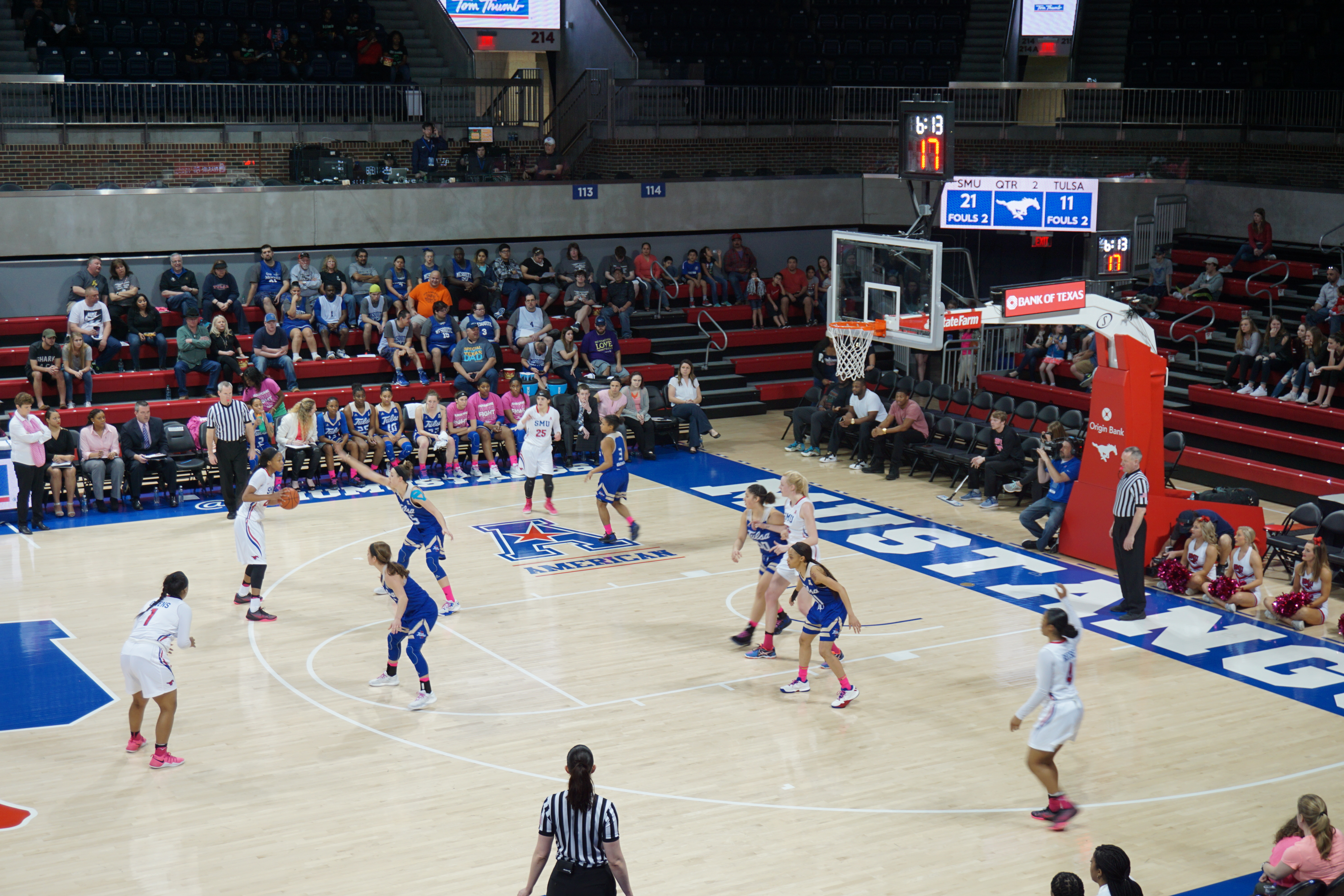 In-game action during the Tulsa Golden Hurricane vs. Southern Methodist Mustangs women's basketball game at Moody Coliseum in University Park, Texas (United States). Southern Methodist won 62–41.